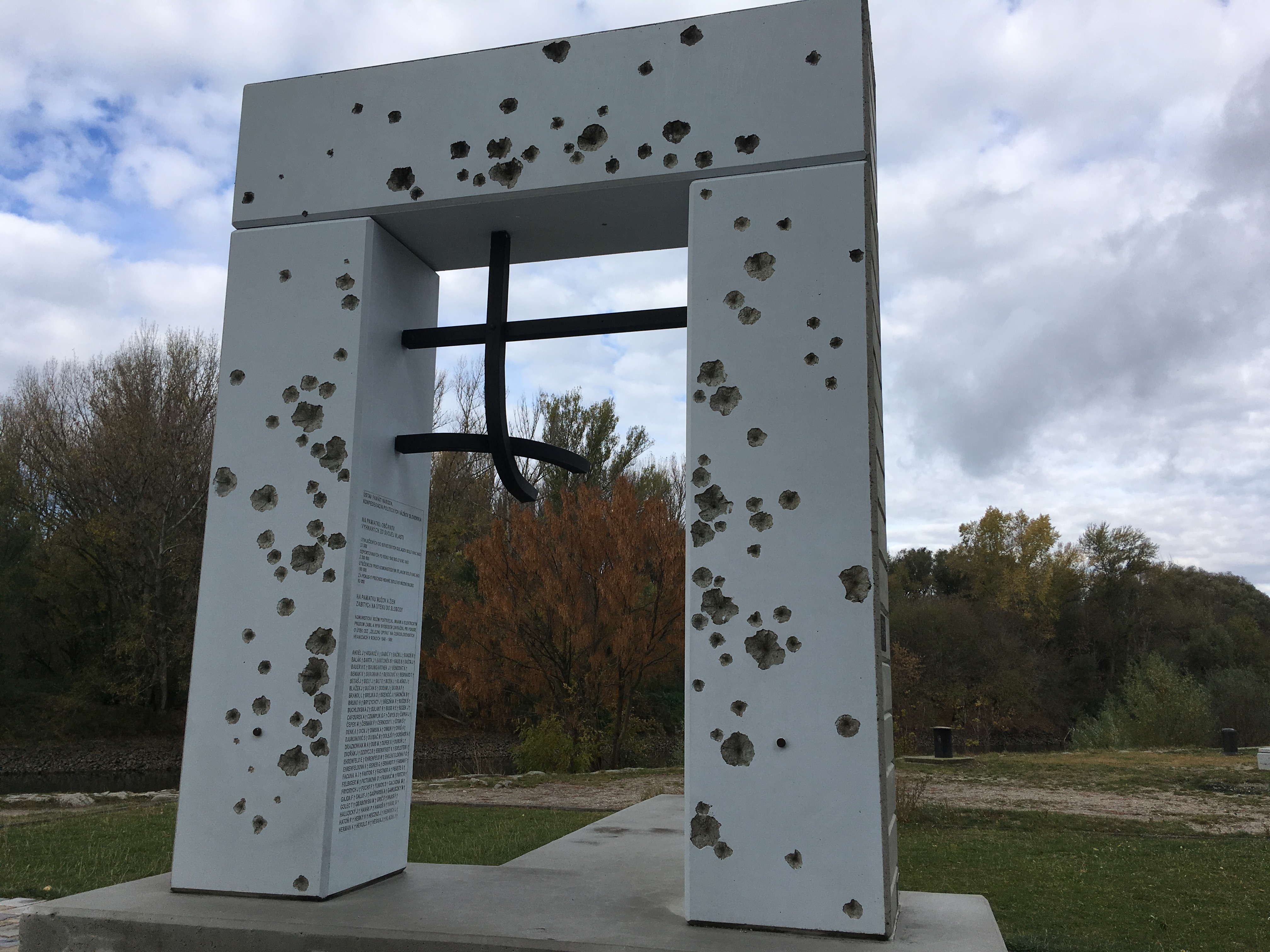 The Gate of Freedom Devin Slovakia